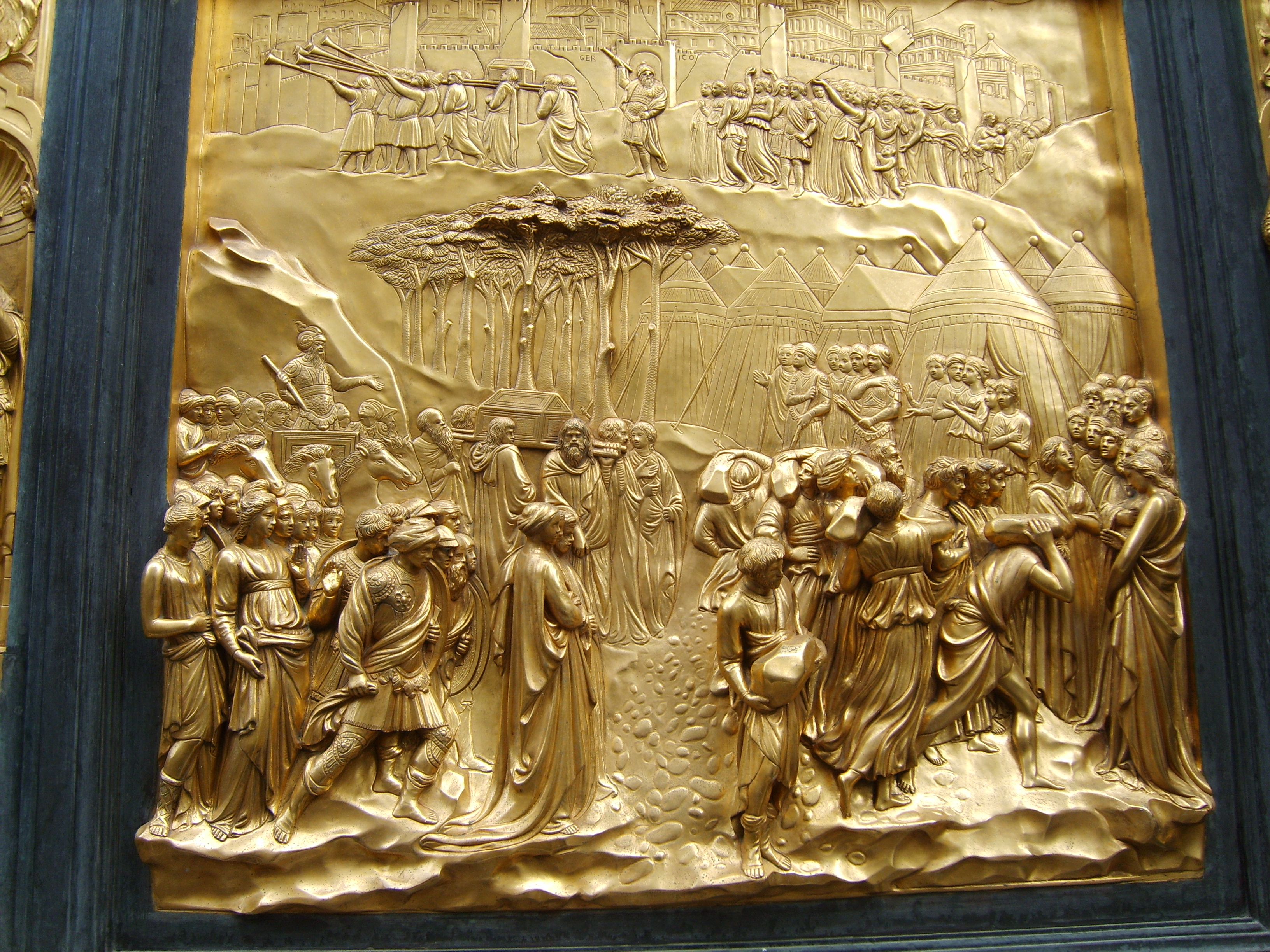 The Gates of Paradise-Jericho